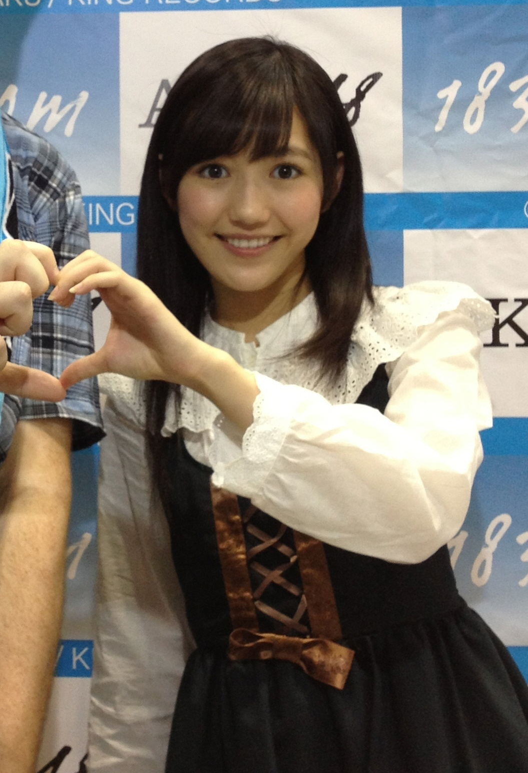 Mayu Watanabe at AKB48 1830m handshake event, on October 14, 2012